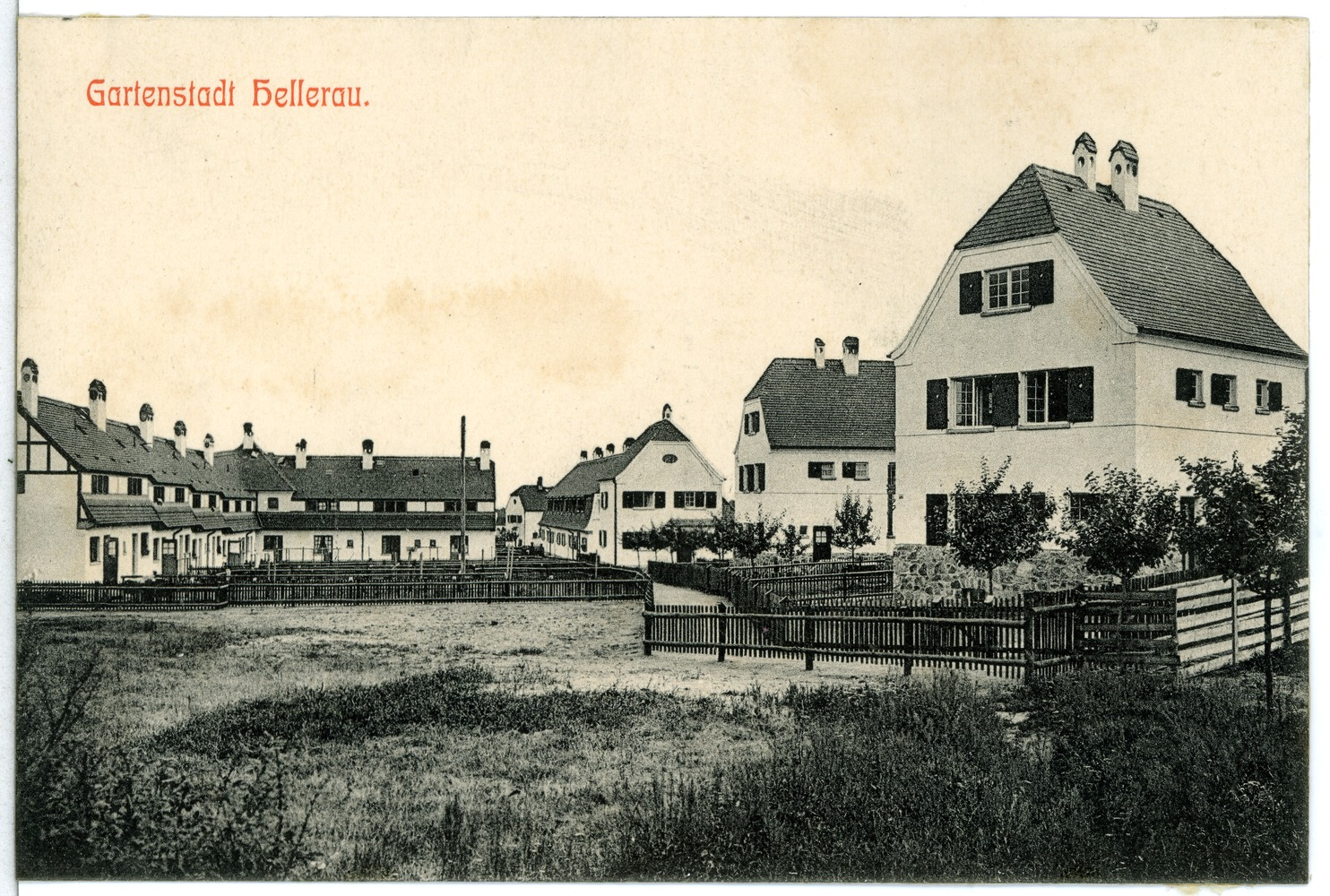 This postcard is from publisher Brück & Sohn in Meißen ( This postcard has a unique number 12406 and is available in a higher resolution at the publisher. This images was uploaded in a cooperation project between Wikipedians and the publisher.